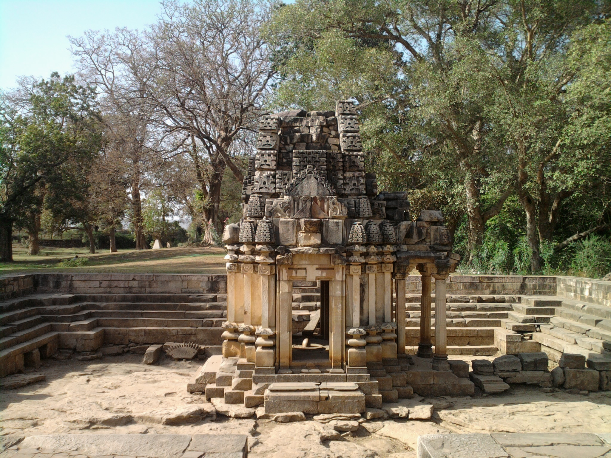 Baroli Temples at nearby Baroli village are one of the oldest temple complexes (9th century AD) in Rajasthan. The chief architect of the Baroli temples was from Orissa